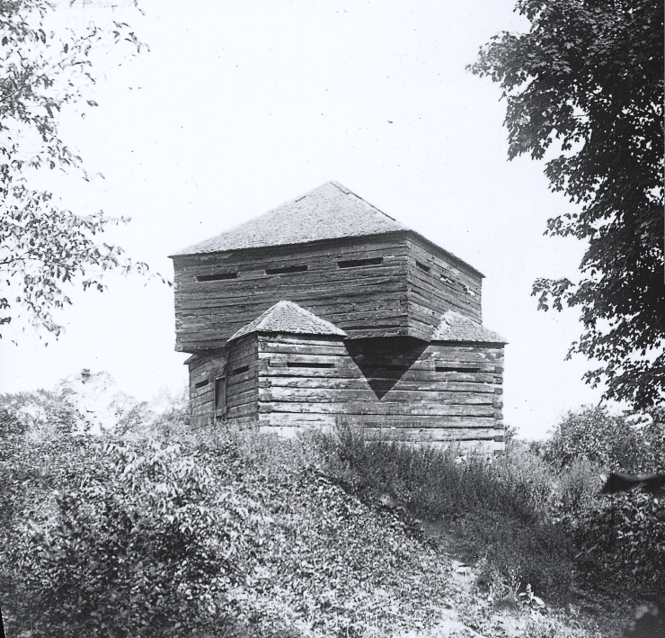 Photograph, glass lantern slide, Blockhouse, Saint Helen's Island, Montreal, QC, about 1895, Anonymous, Silver salts on glass - Gelatin dry plate process - 8 x 8 cm